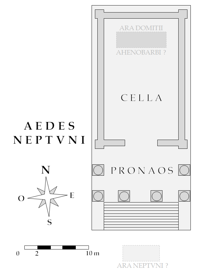 Map of the Temple of Neptunus D'après : - Andrea Carandini, Atlante di Roma Antica, 2012